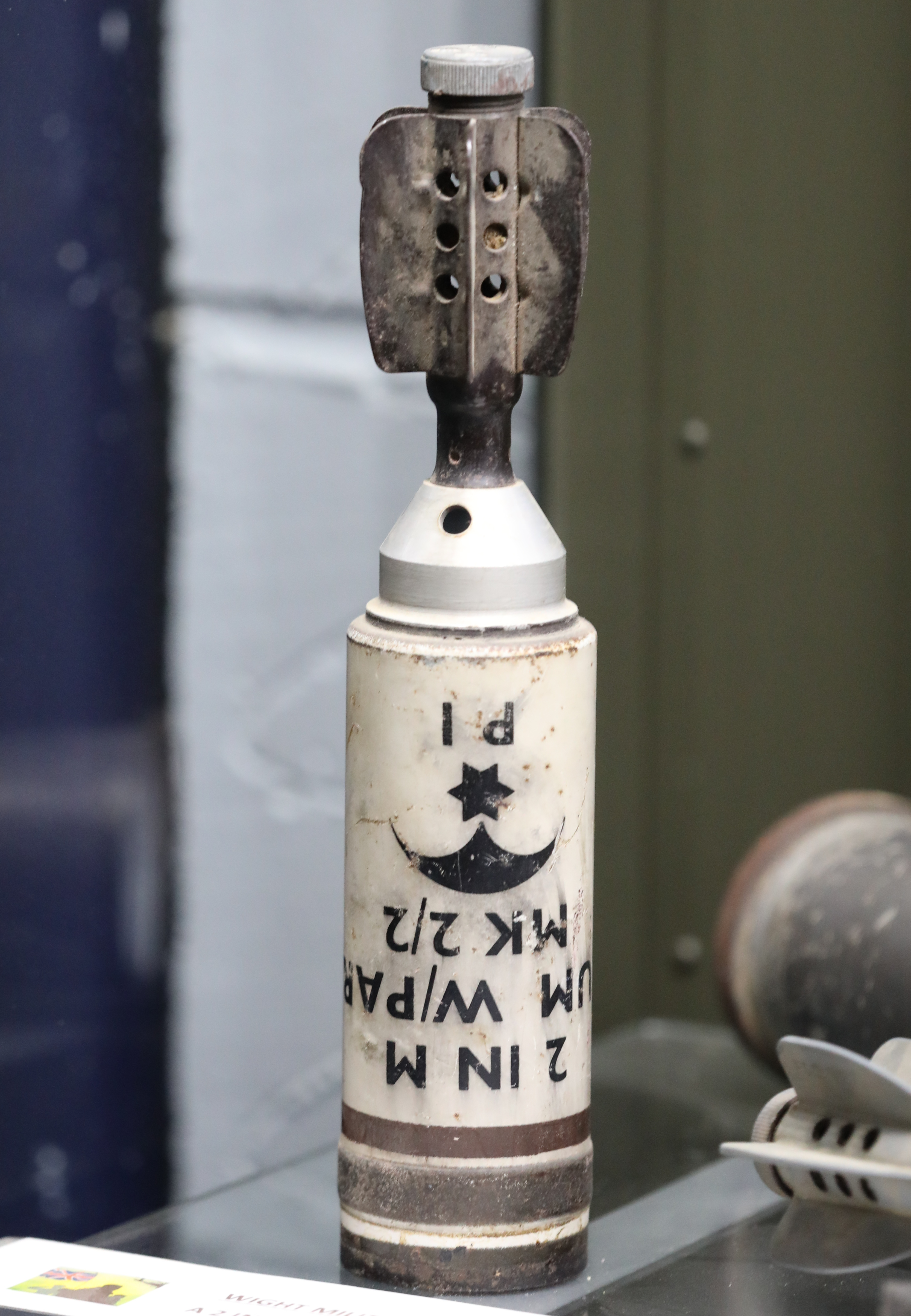 Photo of a Parachute Illumination round for a 2 Inch Mortar